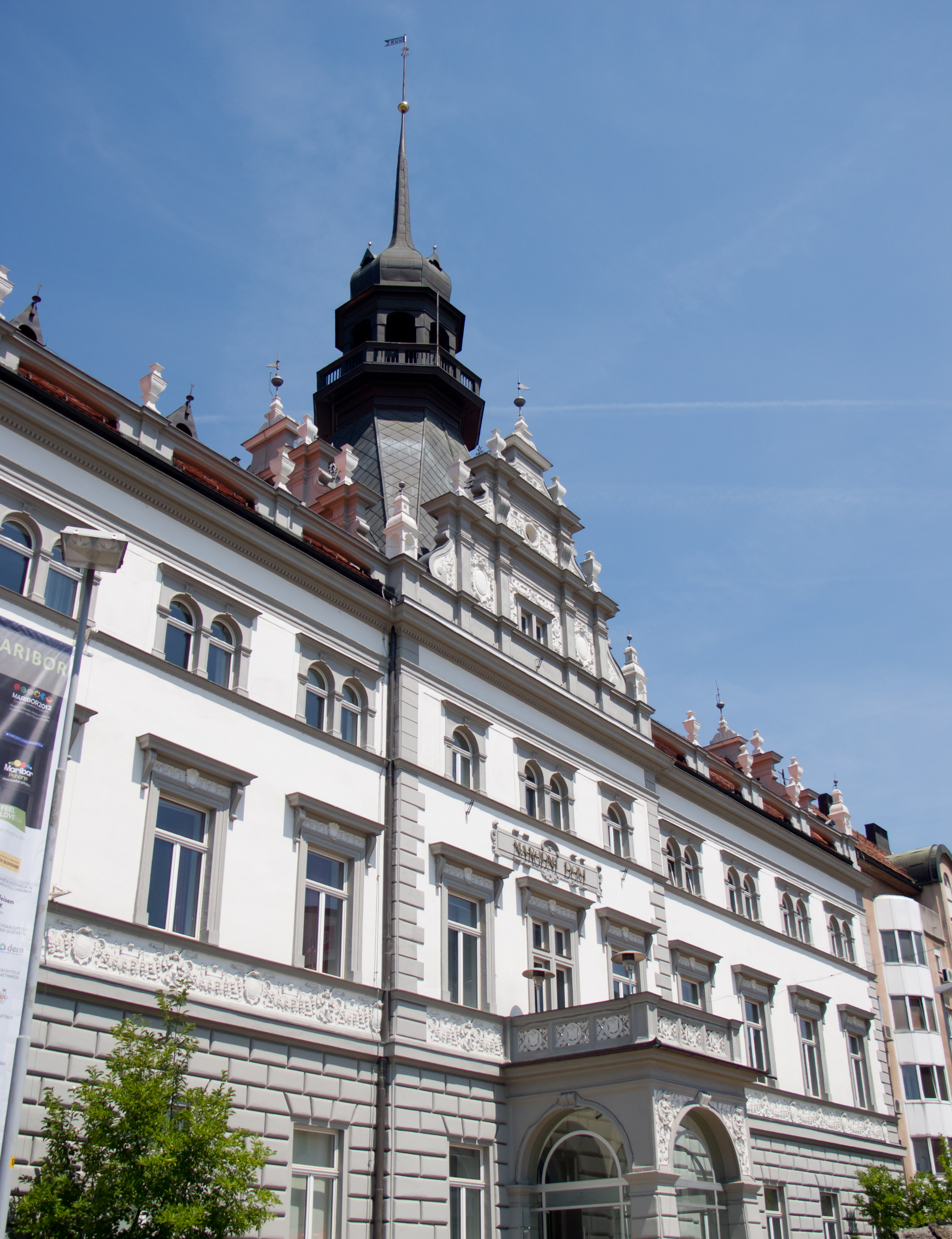 Narodni dom, Maribor.